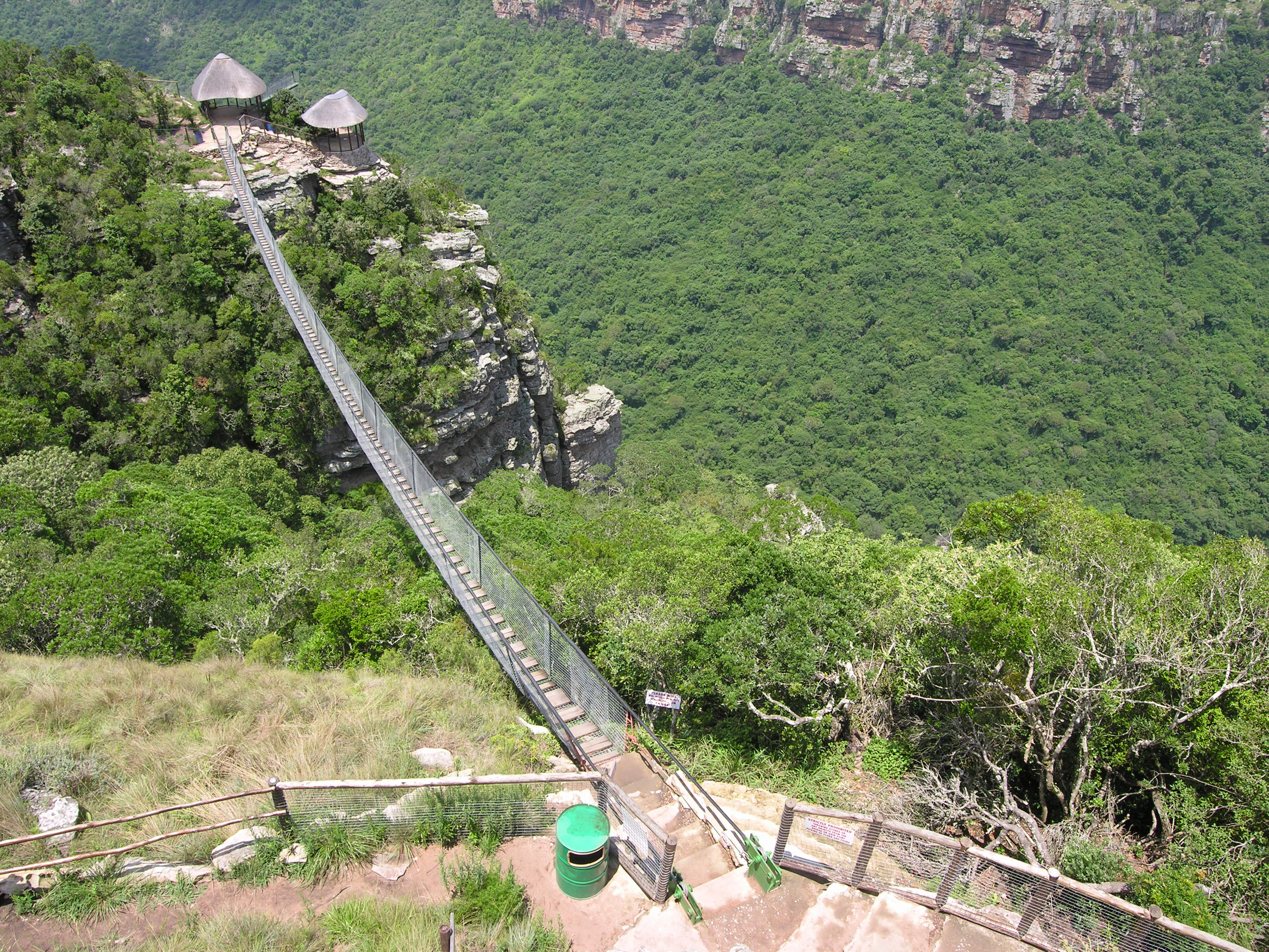 Try this for size